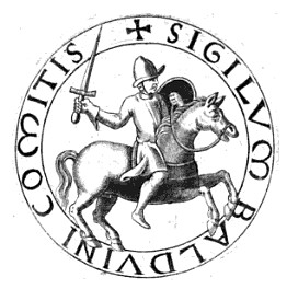 Seal of Baldwin 5 of Flanders